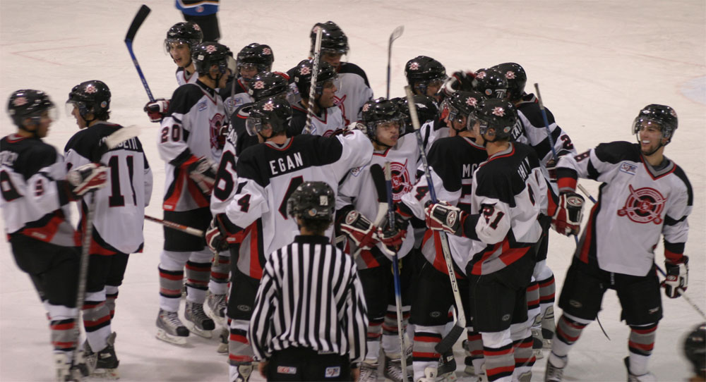 The Fort Frances Jr. Sabres celebrate a home overtime victory over the Marathon Renegades on 16 Nov. '07